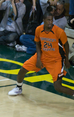 Omari Johnson playign for the Oregon State Beavers.